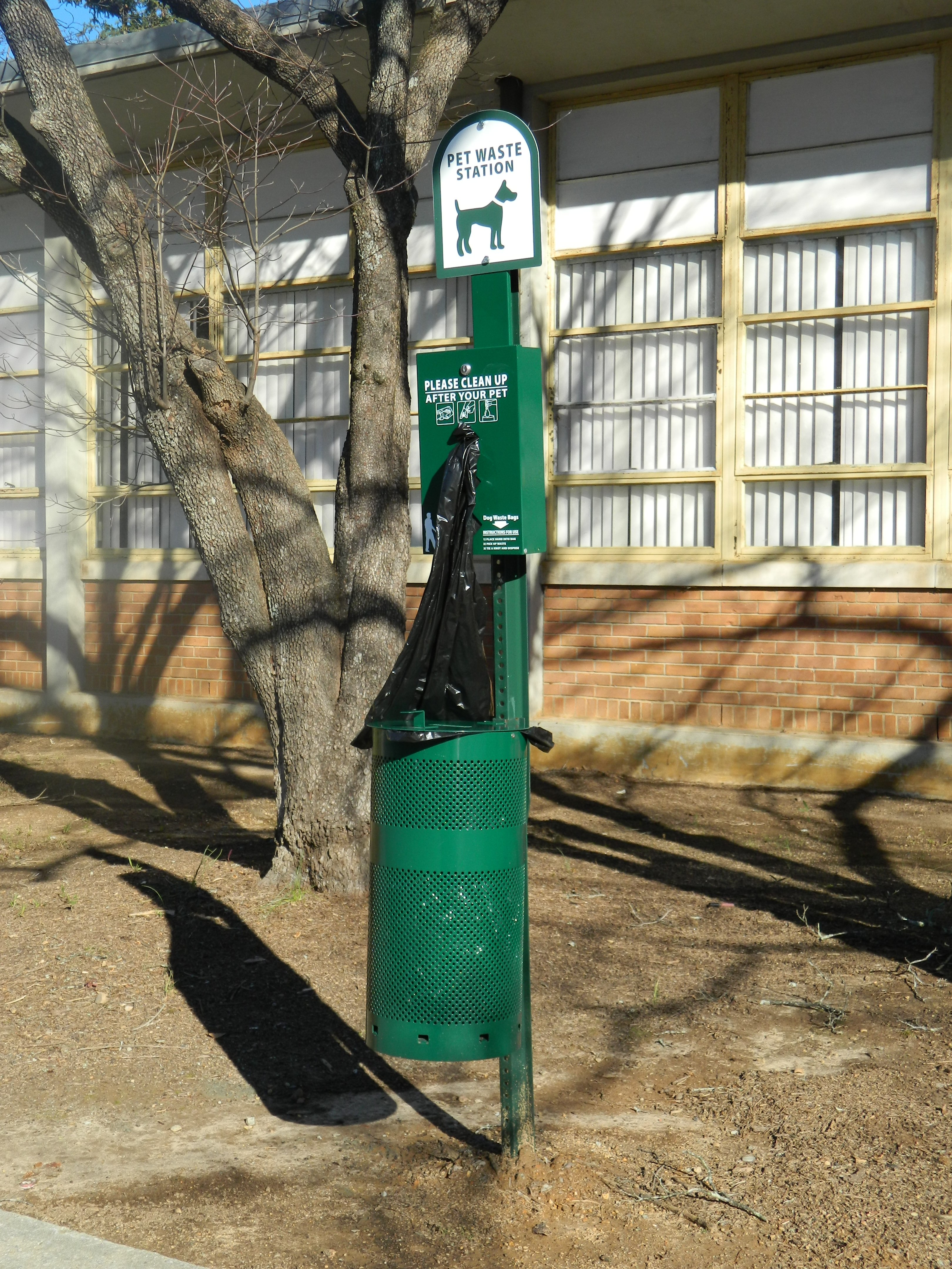 At government building, Tucker, Georgia